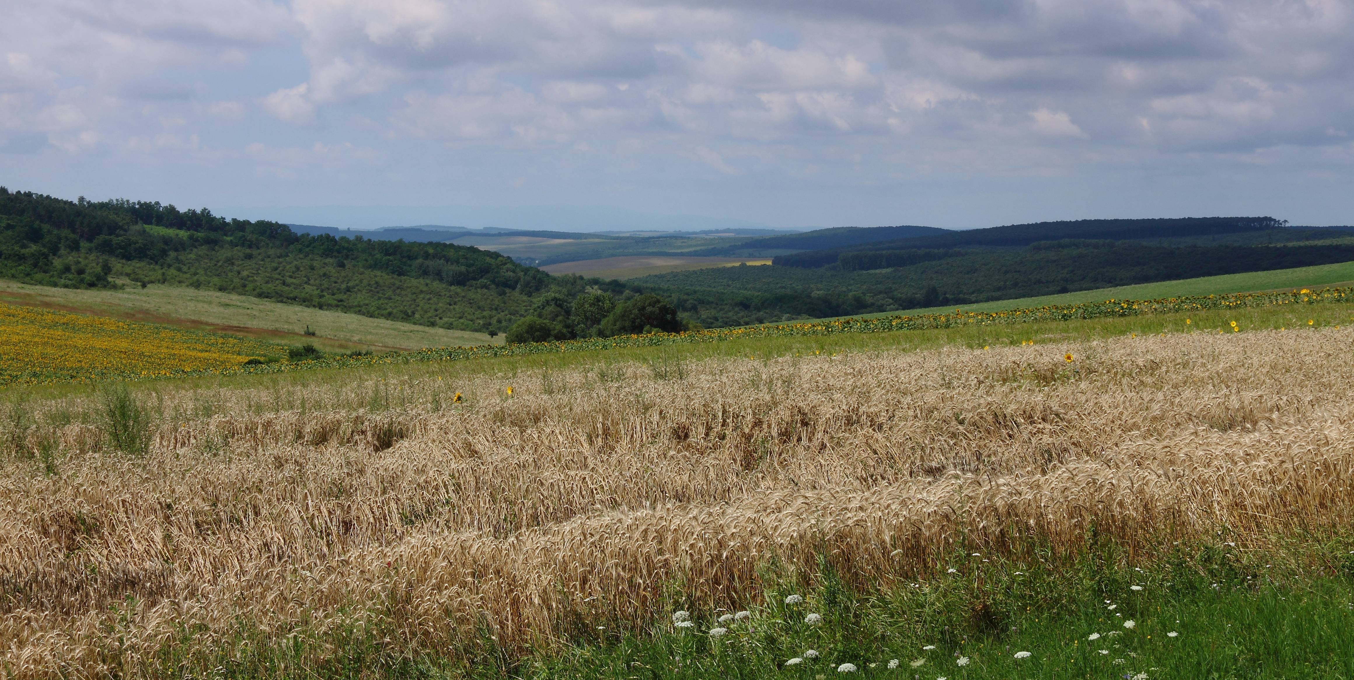 A typical view of Cserehat Hills at Abaújlak-Szanticska, in Hungary